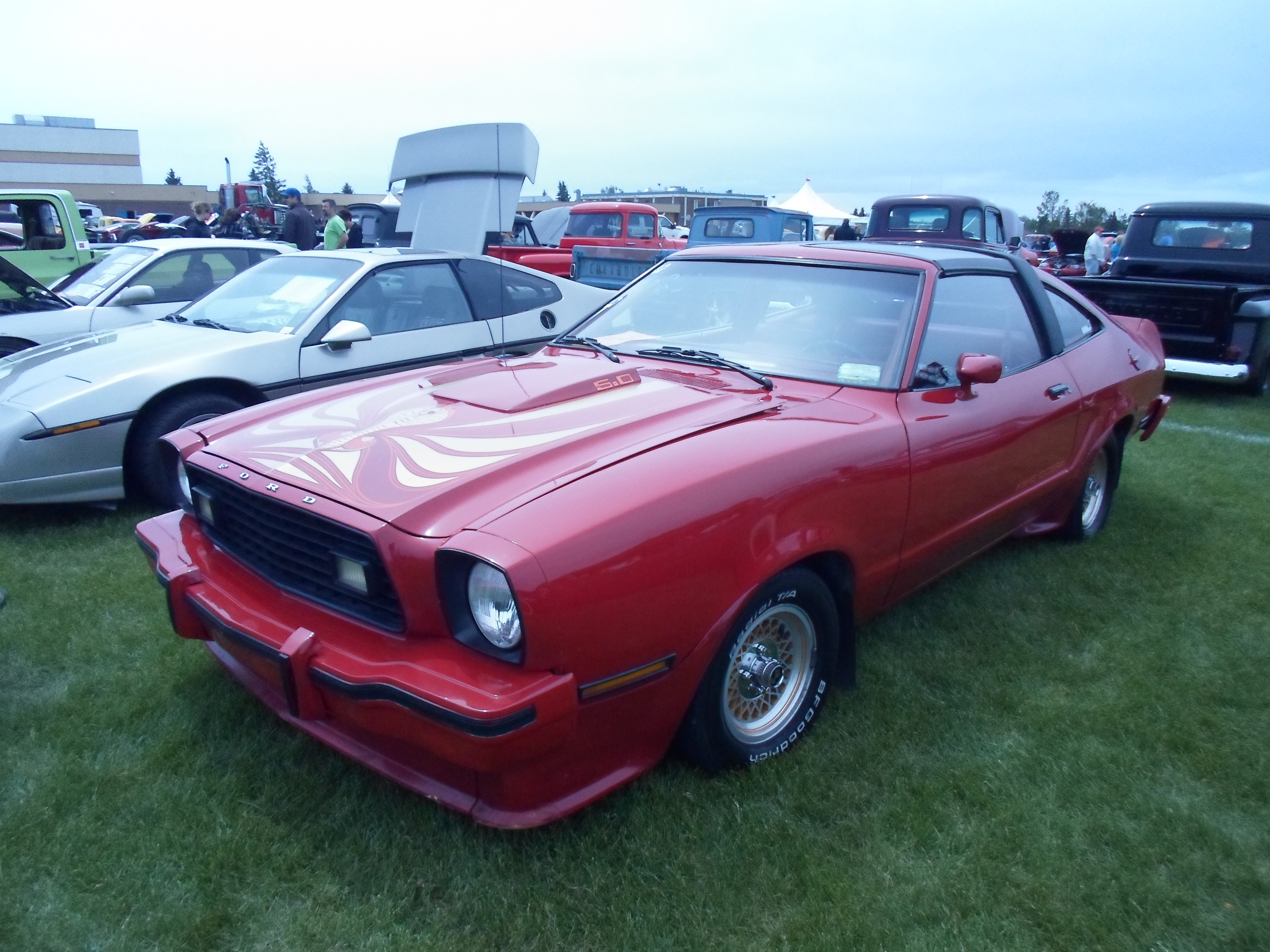 1978 Ford Mustang II King Cobra